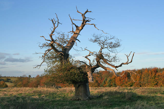 Stag-headed oak, Croxton Park. This is a common sight in ancient oak woodland. As they get older oaks tend to die back and loose branches. They are still an important habitat for a wide variety of insects and small animals and birds. Here this ancient tree is isolated in the field that holds the remnants of the old Premonstratensian Priory. Compare with 608504.